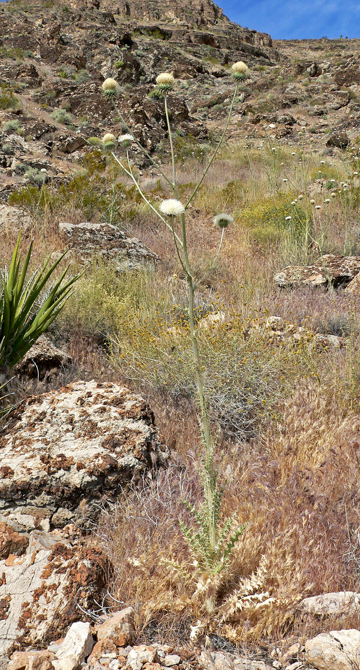 Photo of Cirsium neomexicanum on hillside west of Las Vegas, Nevada, just outside Red Rock Canyon